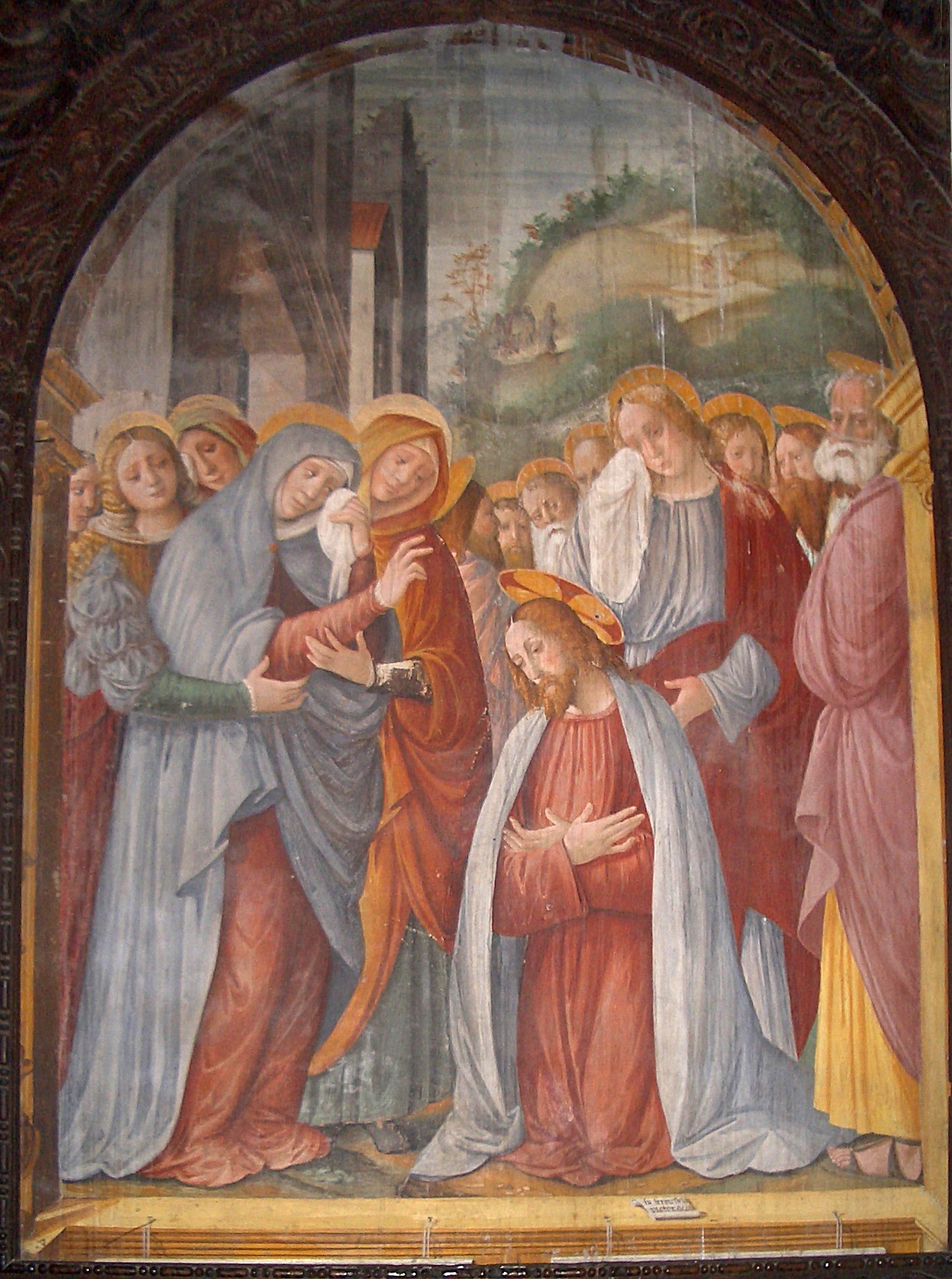 Fermo Stella (1490–1562) Description painterDate of birth/death 1490 1562Location of birth Caravaggio Authority control : Q3069001 VIAF: 51454242 ISNI: 0000 0000 6153 383X LCCN: no2006123951 GND: 108950859X SUDOC: 114444048 WorldCat creator QS:P170,Q3069001 , Jesus takes leave from his Mother, fresco, Chiesa di Santa Maria delle Grazie, Varallo Sesia